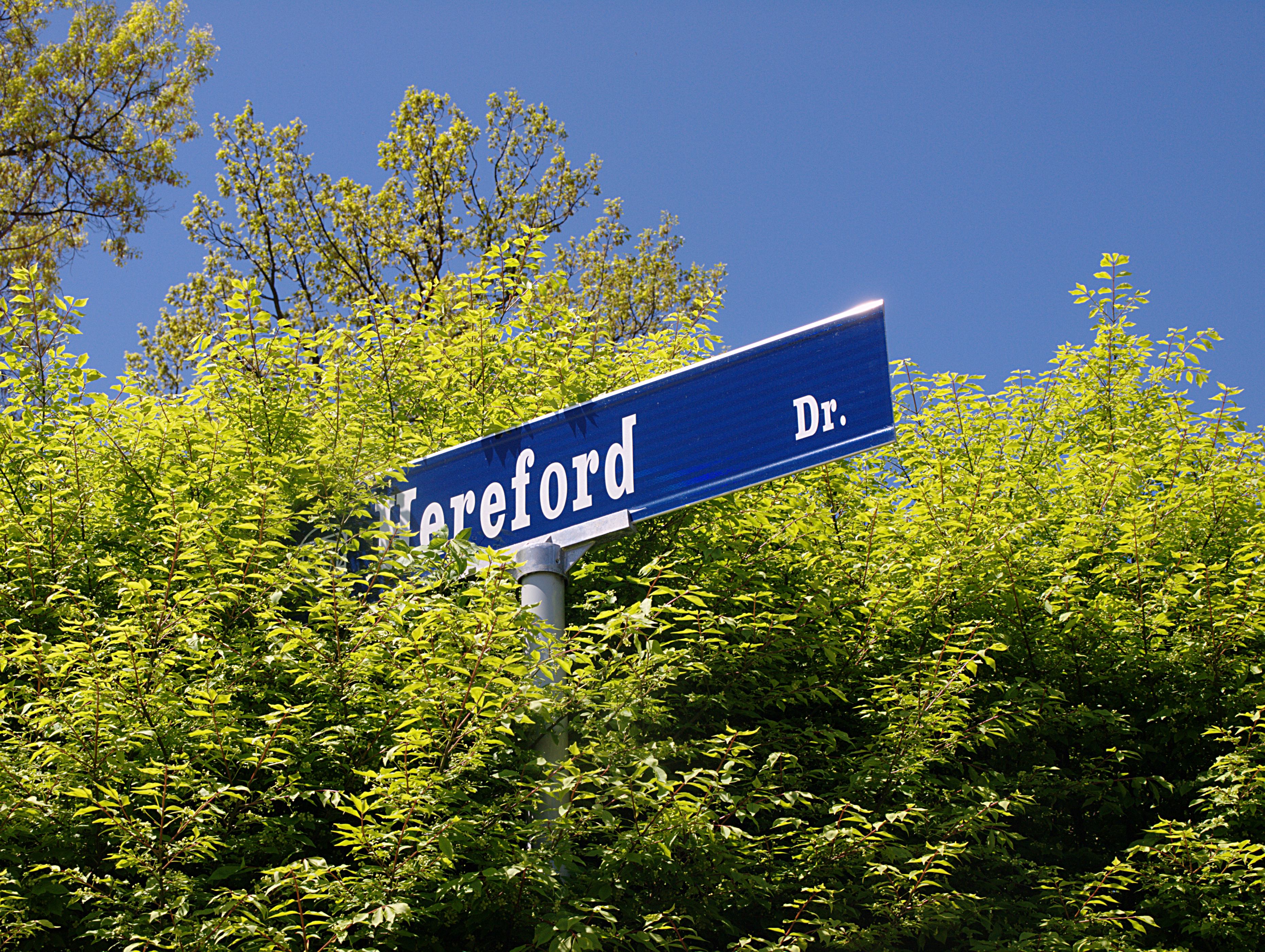 SUBJECT: Hereford College LOCATION: University of Virginia in Charlottesville, USA CAMERA: Olympus E-410